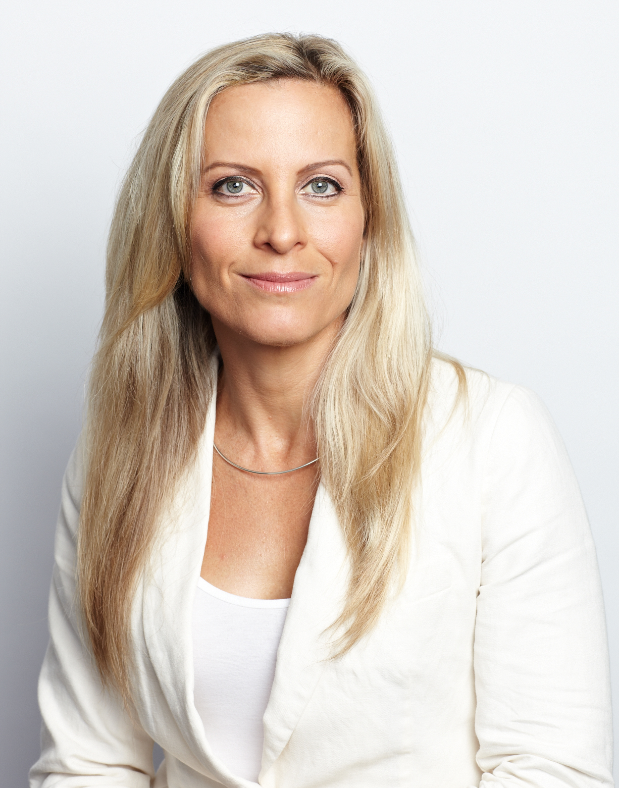 Becky Worley is an American journalist and broadcaster. She is the tech contributor for Good Morning America on ABC, host and blogger for a web show on Yahoo! Tech.